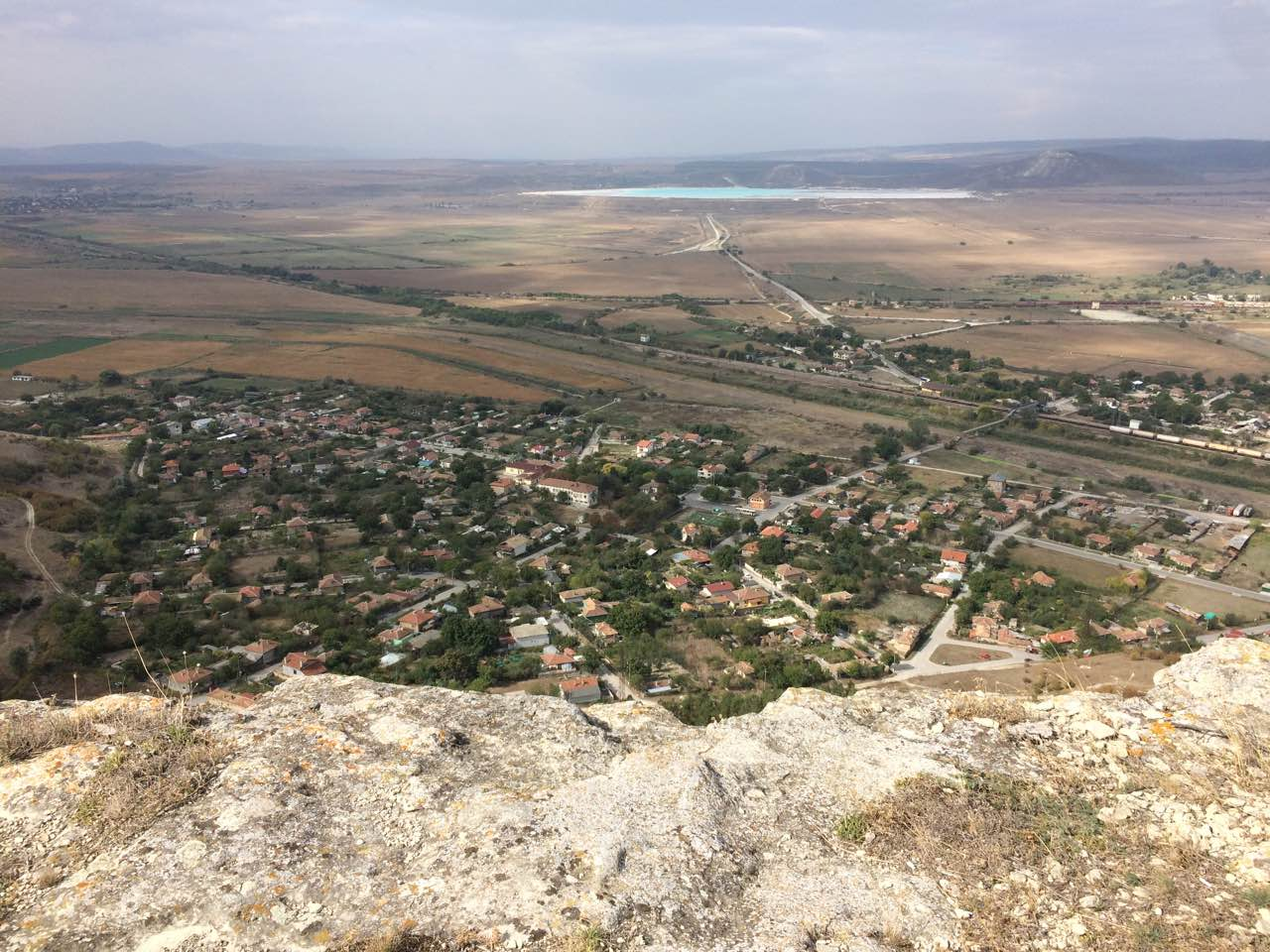 Petrich Kale